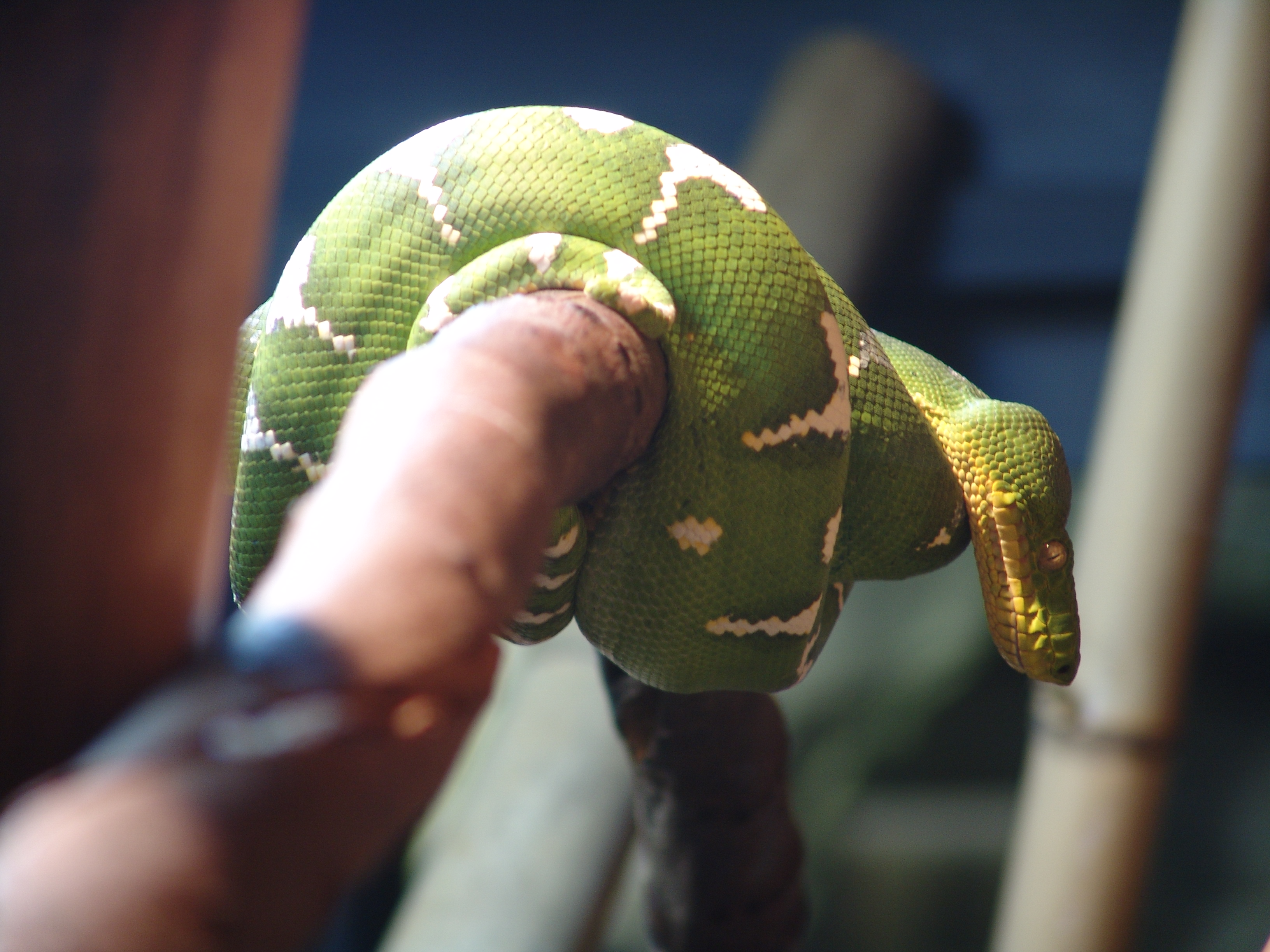 Emerald Tree Boa at Wilmington's Serpentarium. I took the picture